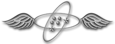 US Navy Aviation Electronics Technician (AT). Winged helium atom, surrounded by the revolving electrons, one horizontal and one vertical.